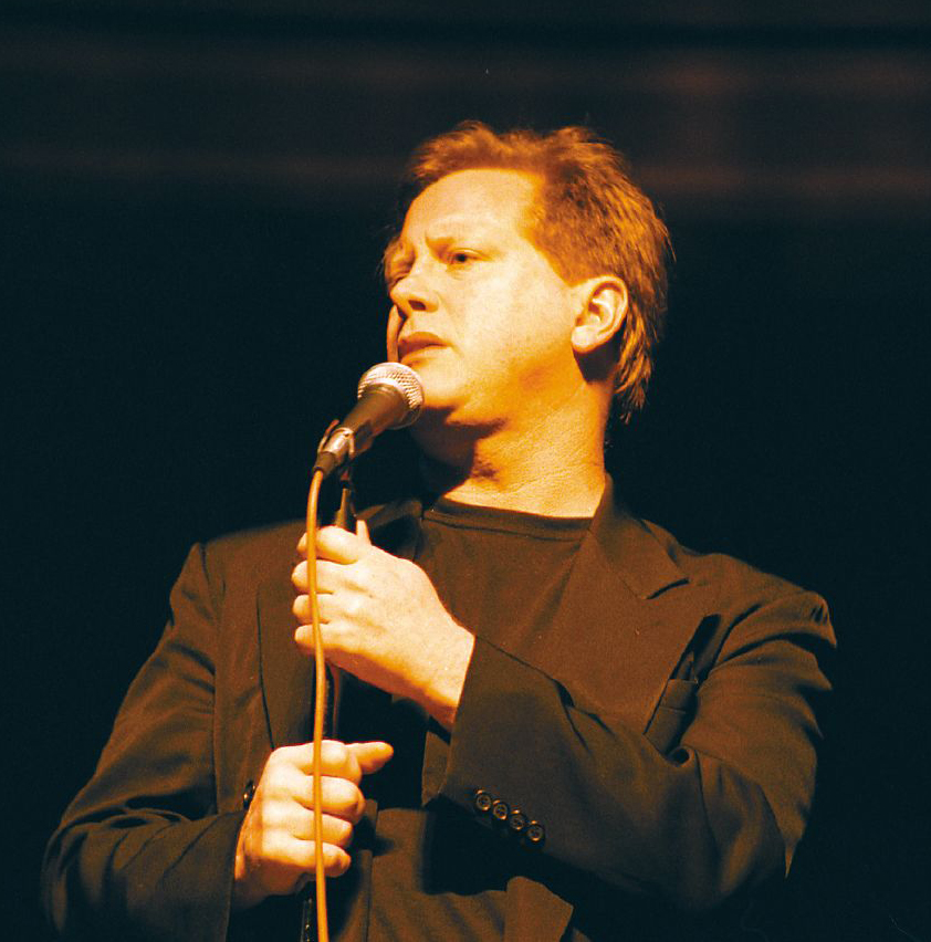 Comedian Darrell Hammond on stage.